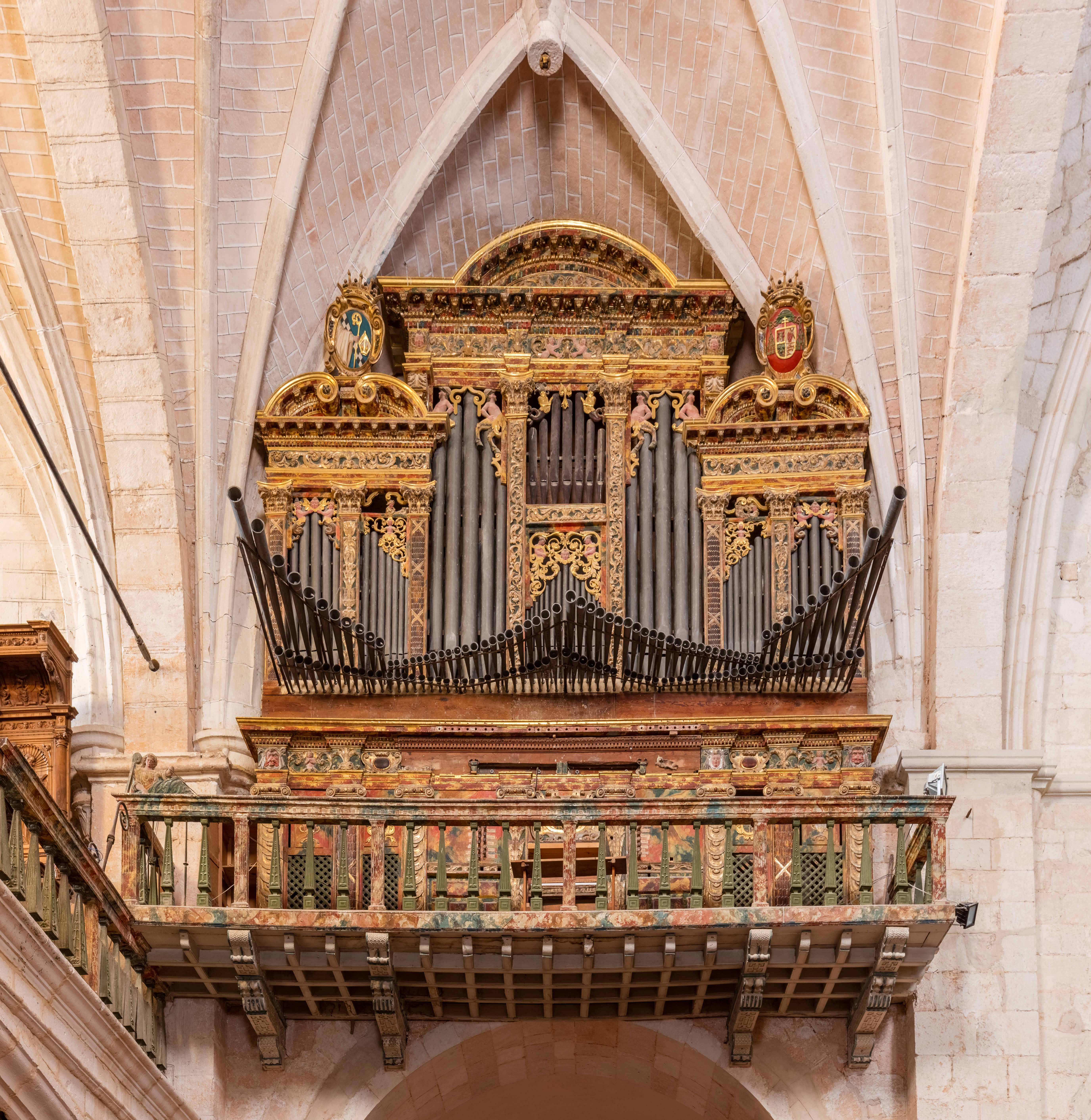 Monastery of Santa María de Huerta, Santa María de Huerta Soria, Spain